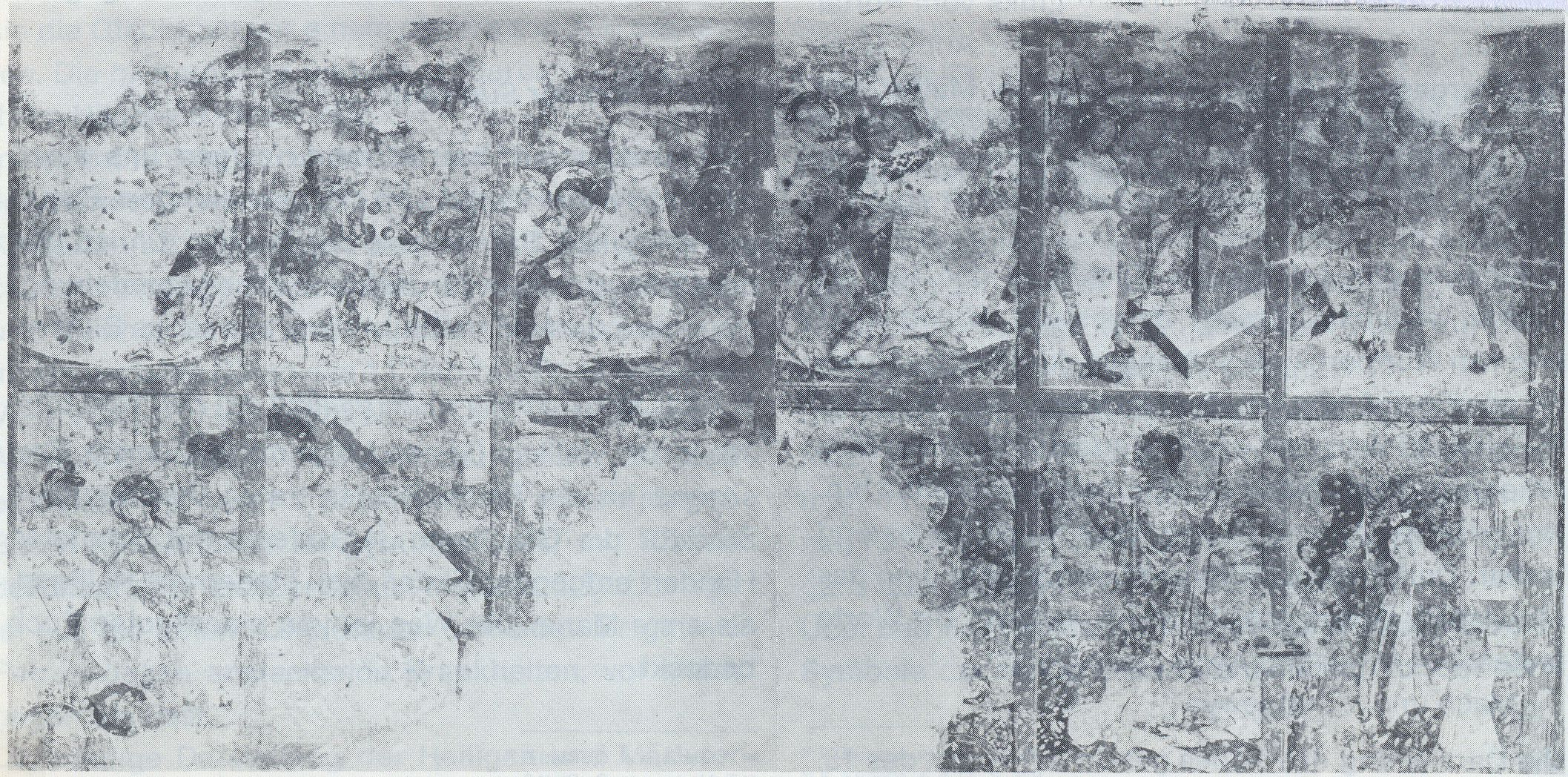 Wall painting "Passion of Christ in Bühlwegkapelle, Ortenberg, Baden-Württemberg, Germany, before restauration (in 1902)